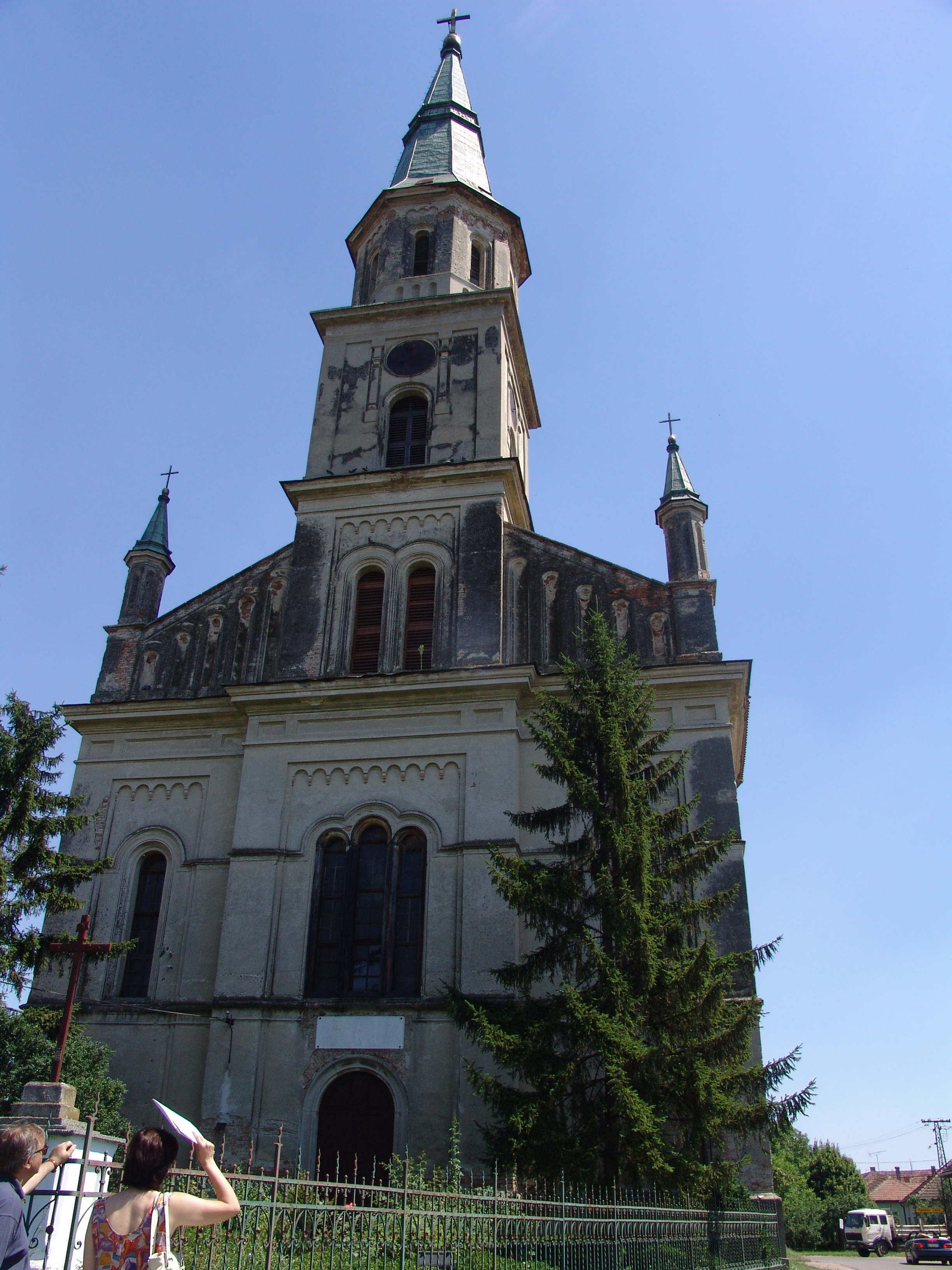 Catholic church of Saint John the Baptist in Ečka - northern facade